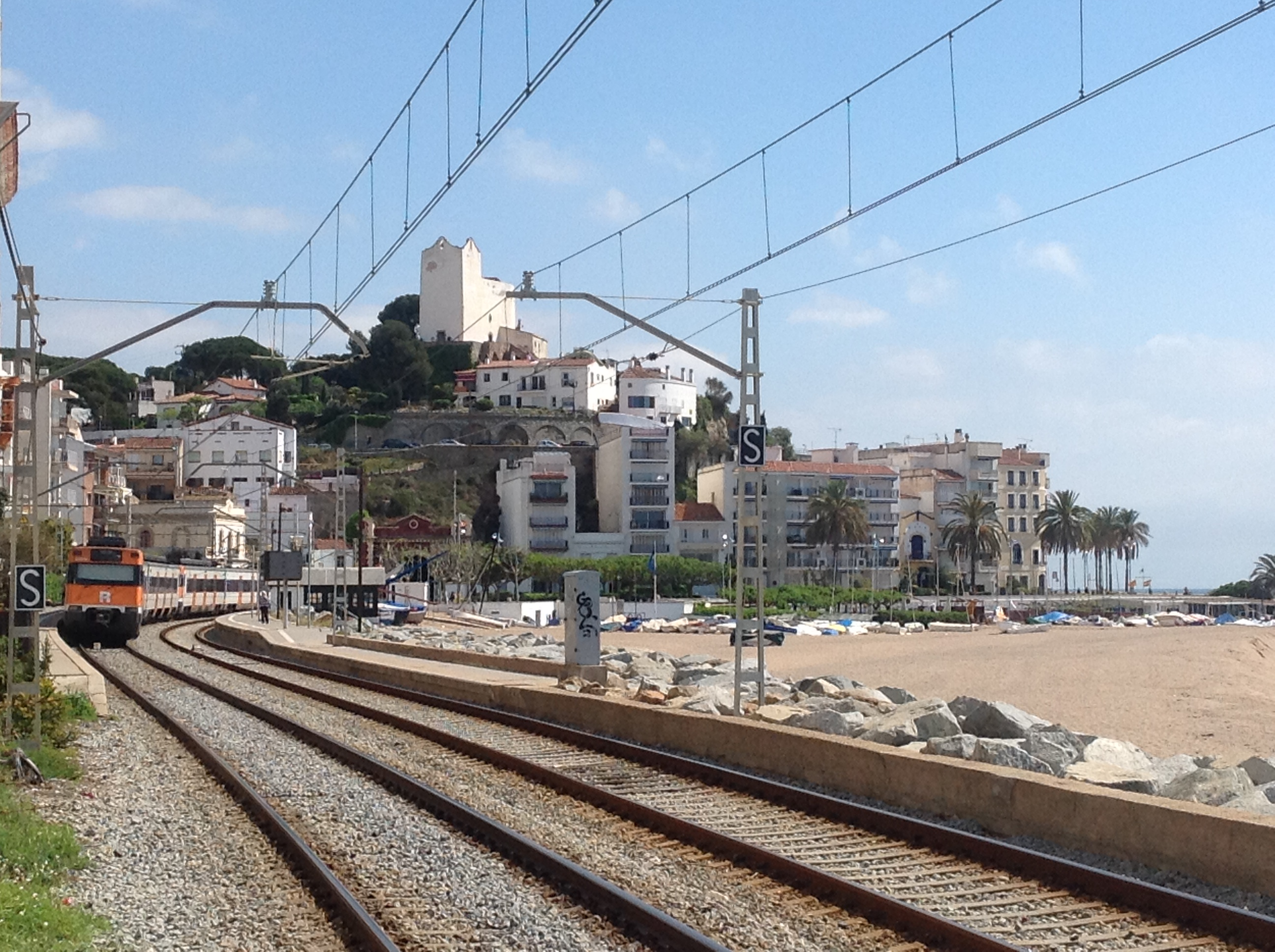 Renfe / Rodalies train for Blanes